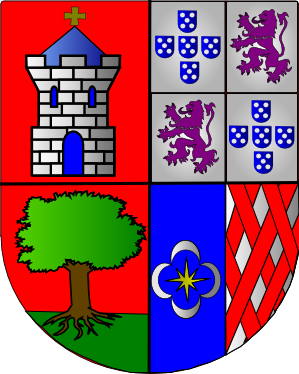 Arms of the Portuguese Dukes of Saldanha. Made by JSobral